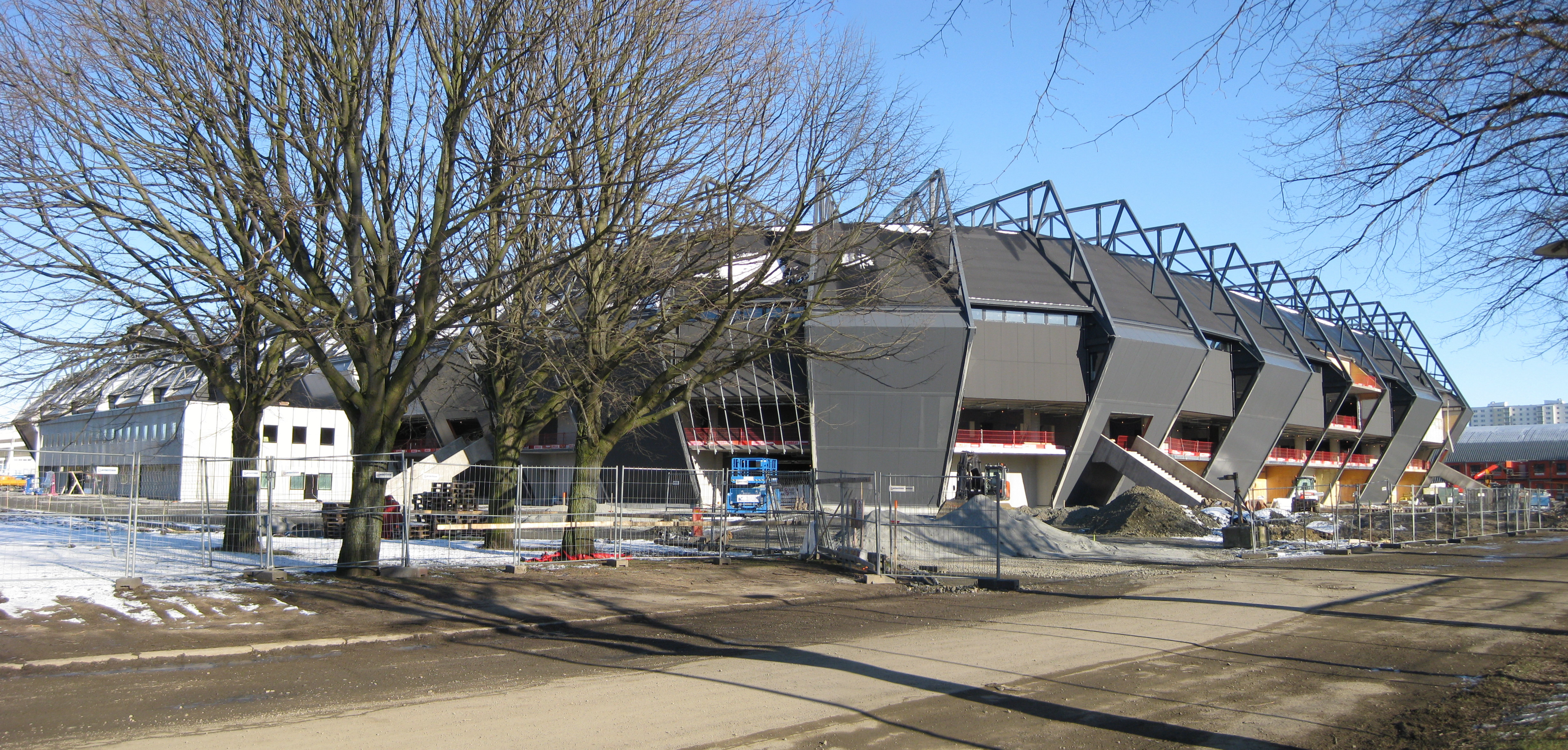 Panorama of Swedbank Stadion in Malmö, Sweden